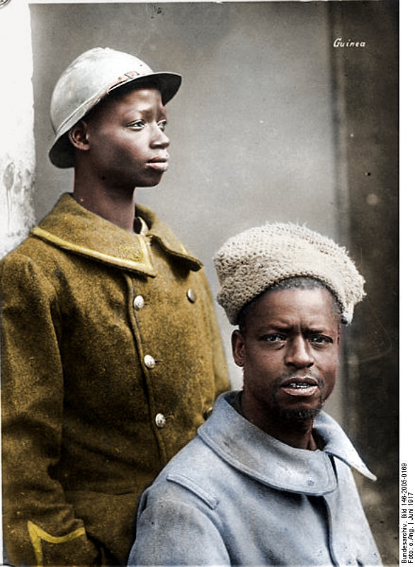 This is a retouched picture, which means that it has been digitally altered from its original version. Modifications: recolored by User:Ruffneck88. == Recolored Version of this image genutztes Programm Recolored v1.1. Description Title: Im Westen, Zwei farbige Kriegsgefangene aus Guinea (Afrika) Factual corrections and alternative descriptions are encouraged separately from the original description. Additionally errors can be reported at this page to inform the Bundesarchiv. Original historic description: Nr. 3685 Einige Typen der "Kulturträger" der Entente aus den letzten Kämpfen in der Champagne. Kämpfer aus Neu-Guinea. Aufgenommen durch: O.H.L. Ort: Im Westen Zeit: Im Juni 1917 Bild- und Film-Amt Bildstelle Berlin SW68 Commons:Bundesarchiv Title: Im Westen, Zwei farbige Kriegsgefangene aus Guinea (Afrika) Factual corrections and alternative descriptions are encouraged separately from the original description. Additionally errors can be reported at this page to inform the Bundesarchiv. Original historic description: Nr. 3685 Einige Typen der "Kulturträger" der Entente aus den letzten Kämpfen in der Champagne. Kämpfer aus Neu-Guinea. Aufgenommen durch: O.H.L. Ort: Im Westen Zeit: Im Juni 1917 Bild- und Film-Amt Bildstelle Berlin SW68